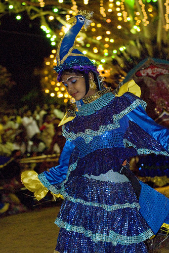 Kataragama Esala Festival A dancer with a peacock costume